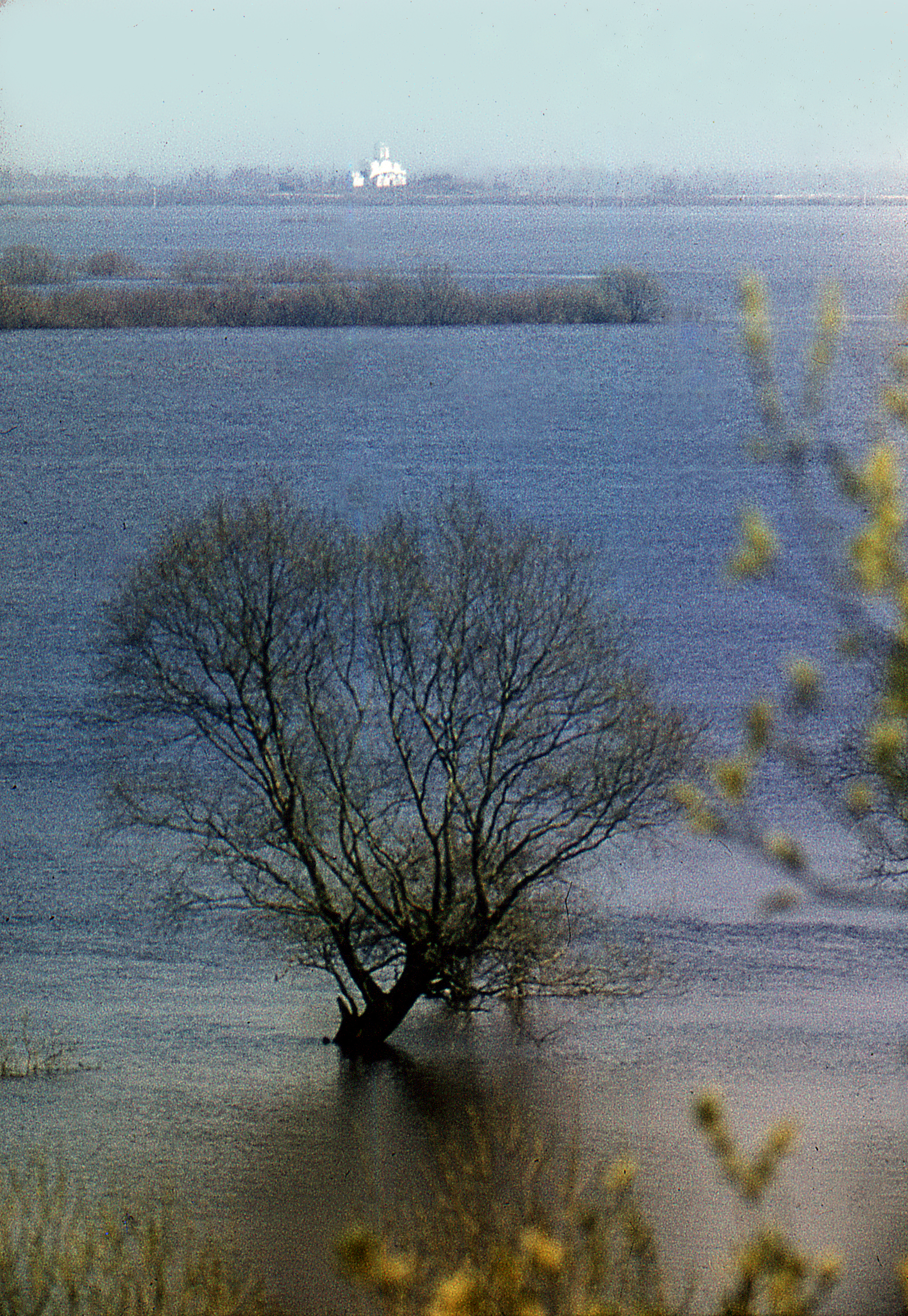 Spring floods, with St. Nicholas Church on Lipno Island, Novgorod Oblast, Russia, in the distance.